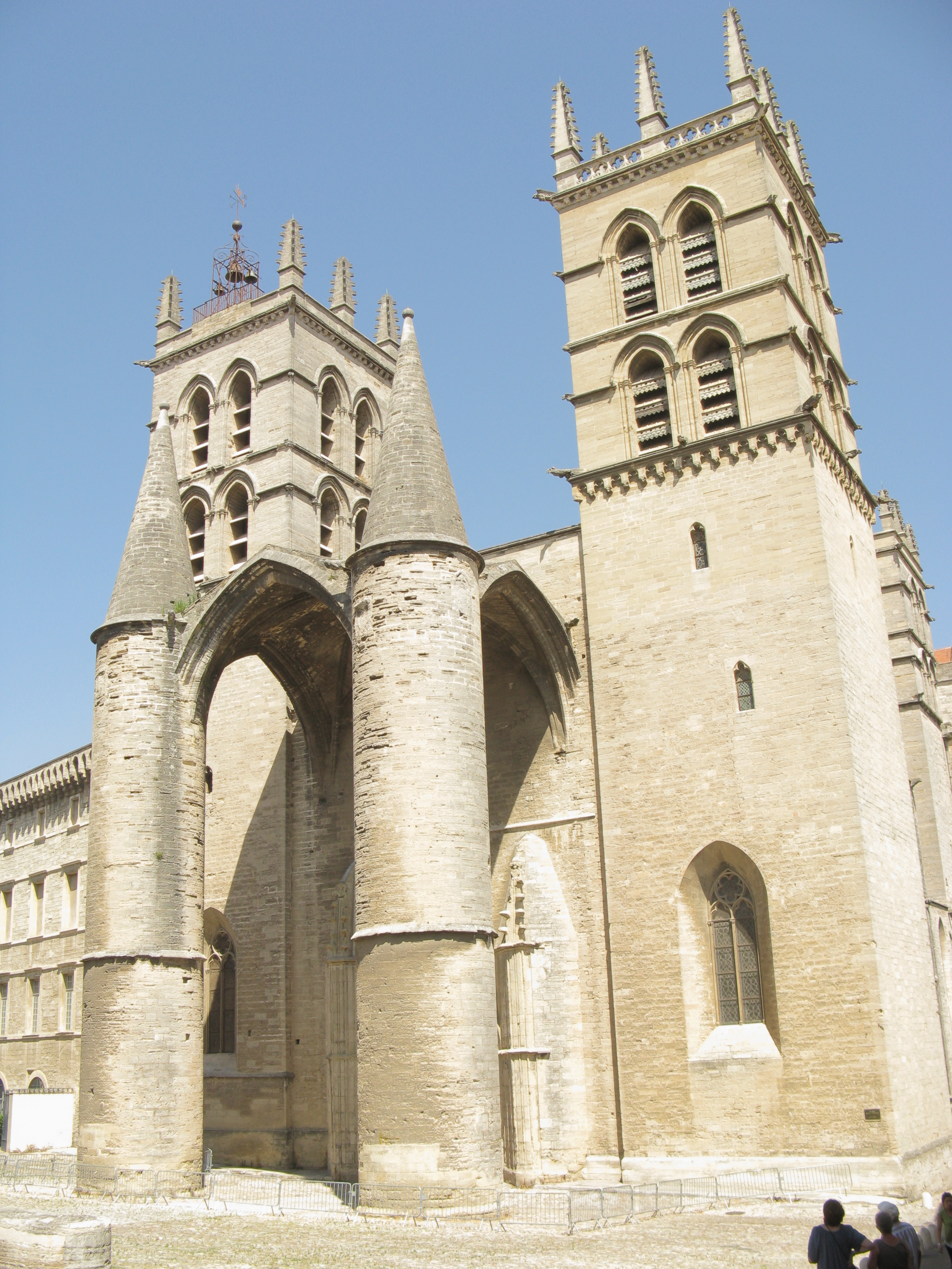 Saint Peter's cathedral in Montpellier, France.